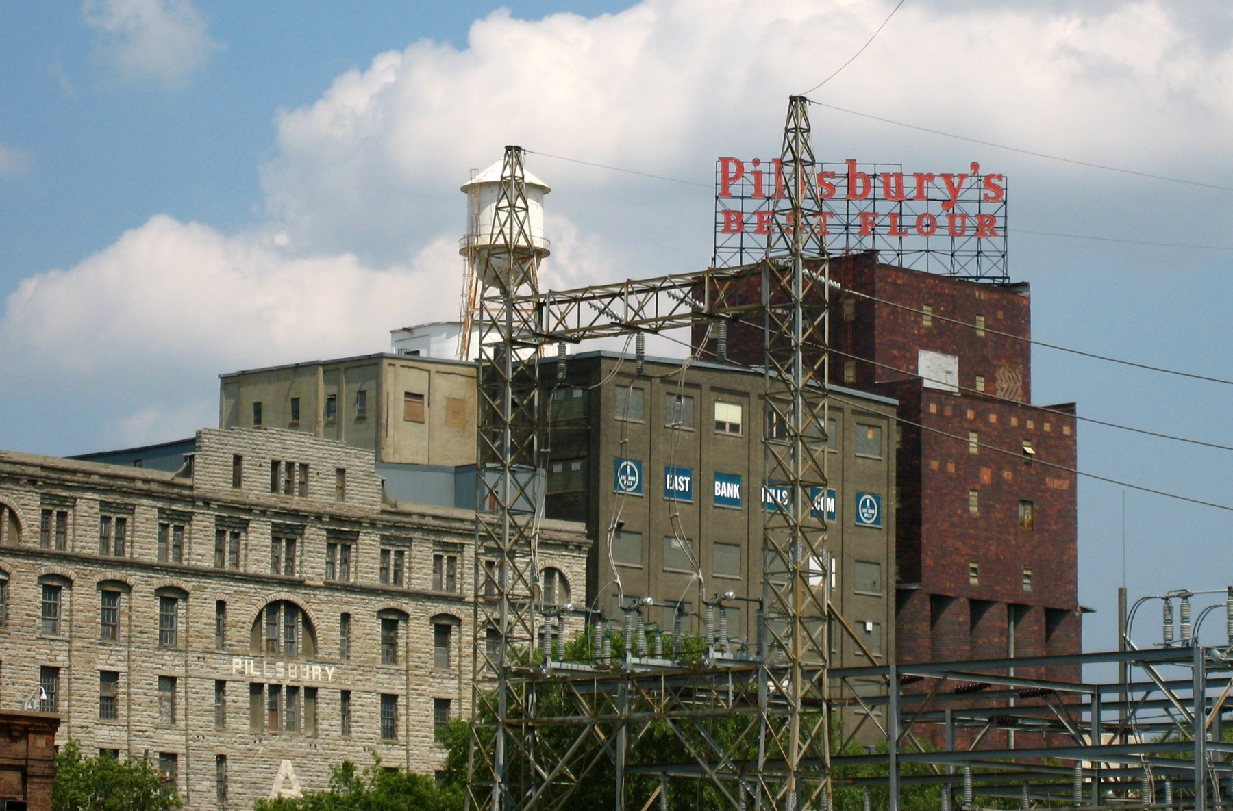 Pillsbury Company, Minneapolis, Minnesota